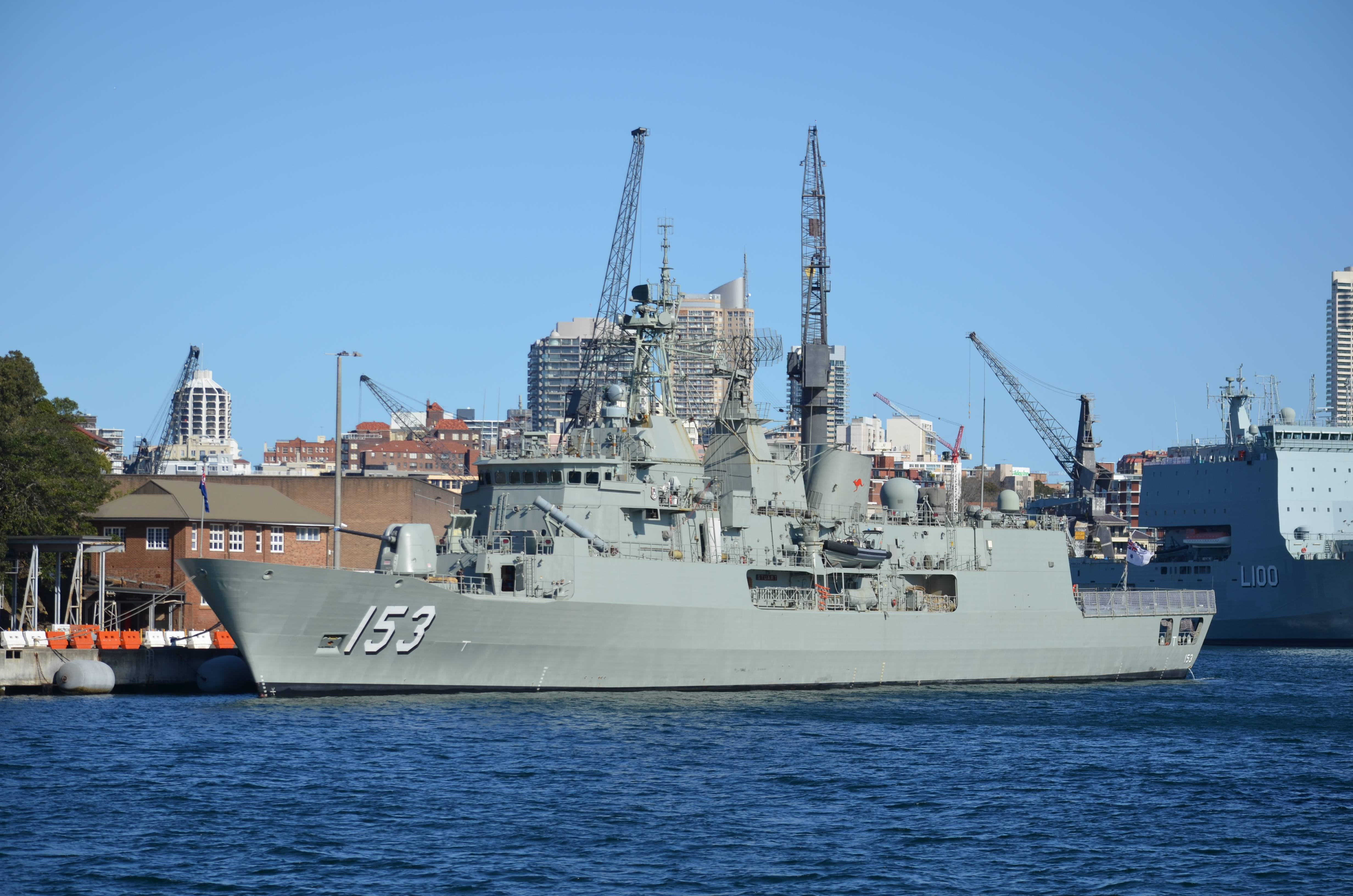 HMAS Stuart berthed at Fleet Base East in 2014